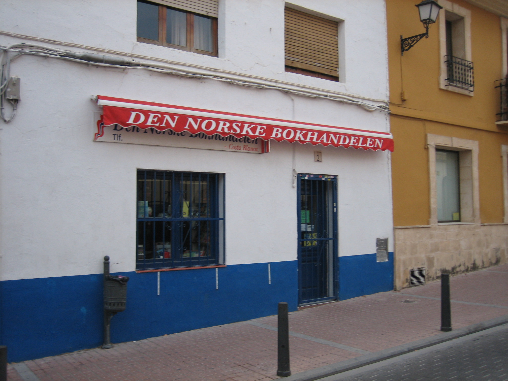 Shop of Norwish products in Alfaz del Pi (Alicante, Spain). 53,06% of people living in this town in 2006 were of foreign nationality, mainly Norwish and British. Author: Rodriguillo Date: 09/10/2006